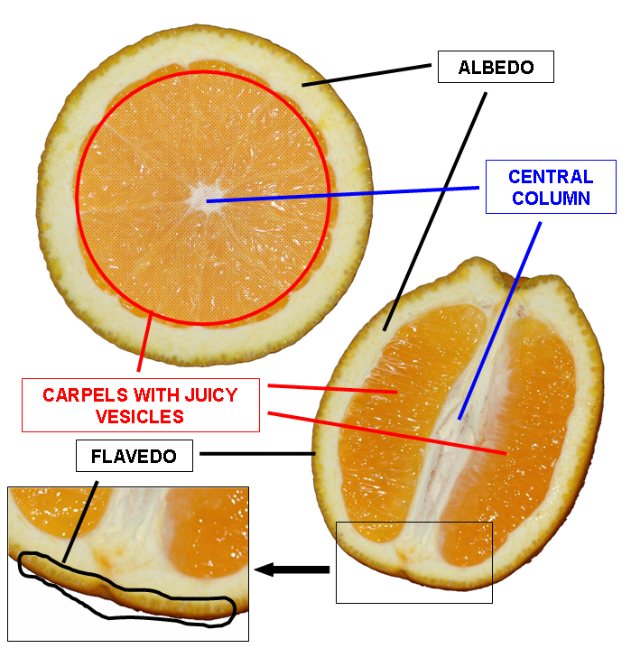 Orange cross section picture with legend.